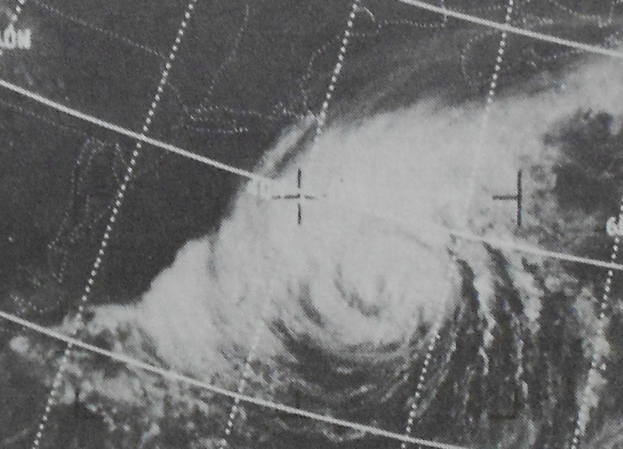 This ESSA 5 satellite image of Hurricane Doria was taken on September 14, 1967